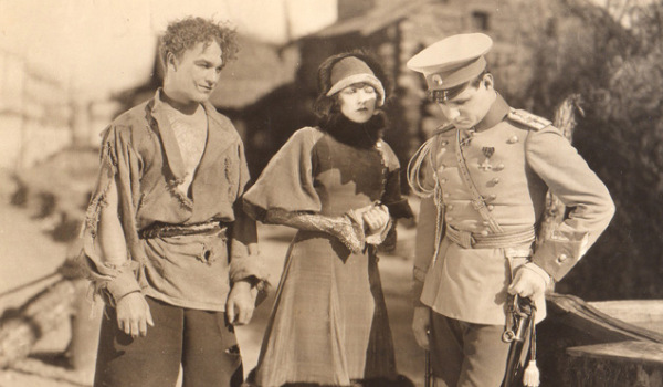 William Boyd, Elinor Fair and Victor Varconi in a scene from the film The Volga Boatman (1926) directed by Cecil B. DeMille).